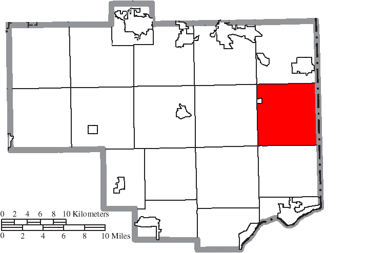 Map of the municipal and township boundaries of Columbiana County, Ohio, United States, as of the 2000 census, with the location of Middleton Township highlighted. Township borders are shown only in unincorporated areas in order to differentiate incorporated and unincorporated areas more clearly.